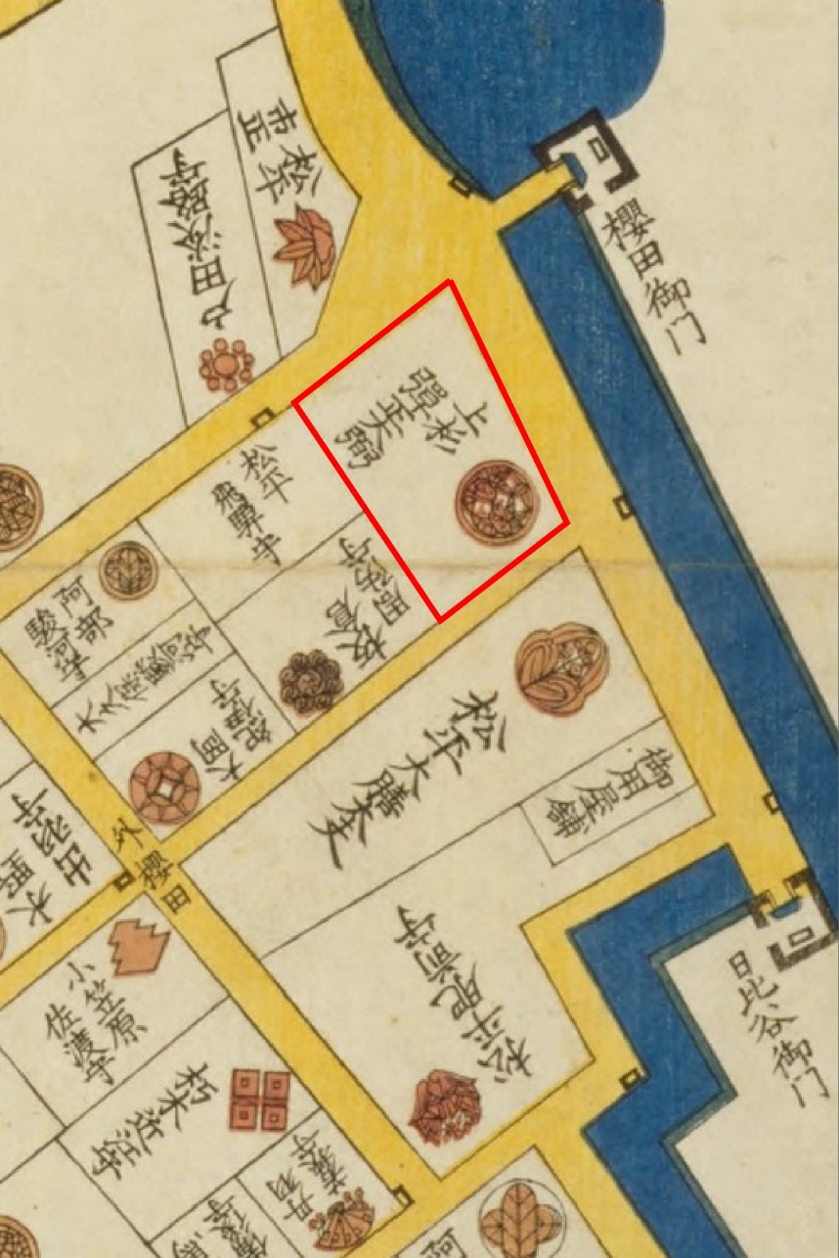 Residence of Uesugi clan at Edo